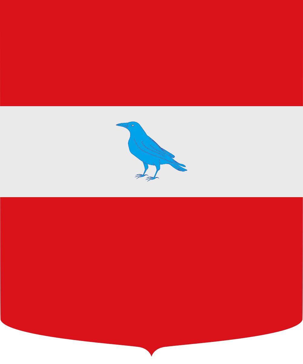 Adoaldi family shield